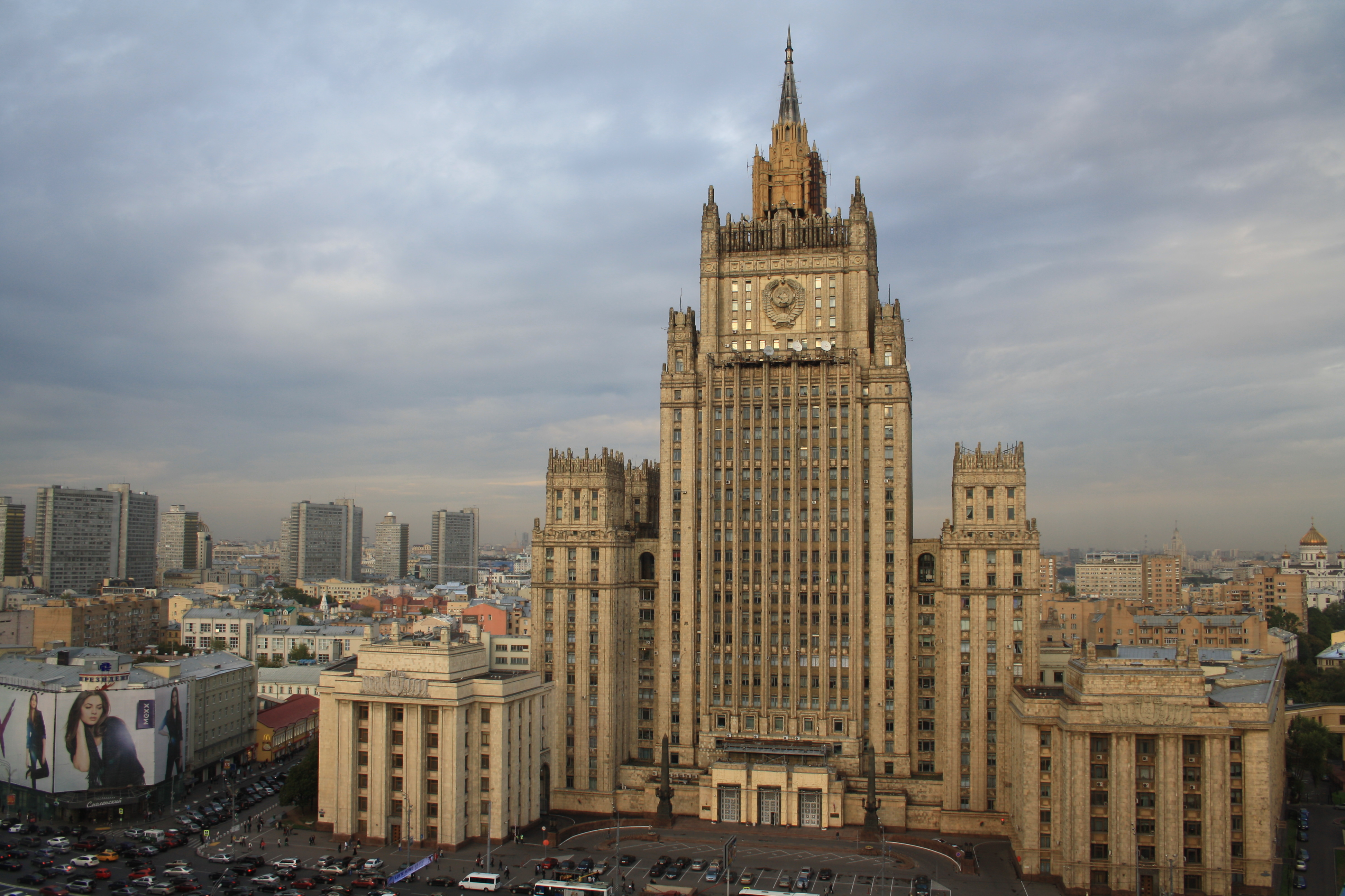 Khamovniki District, Moscow, Russia